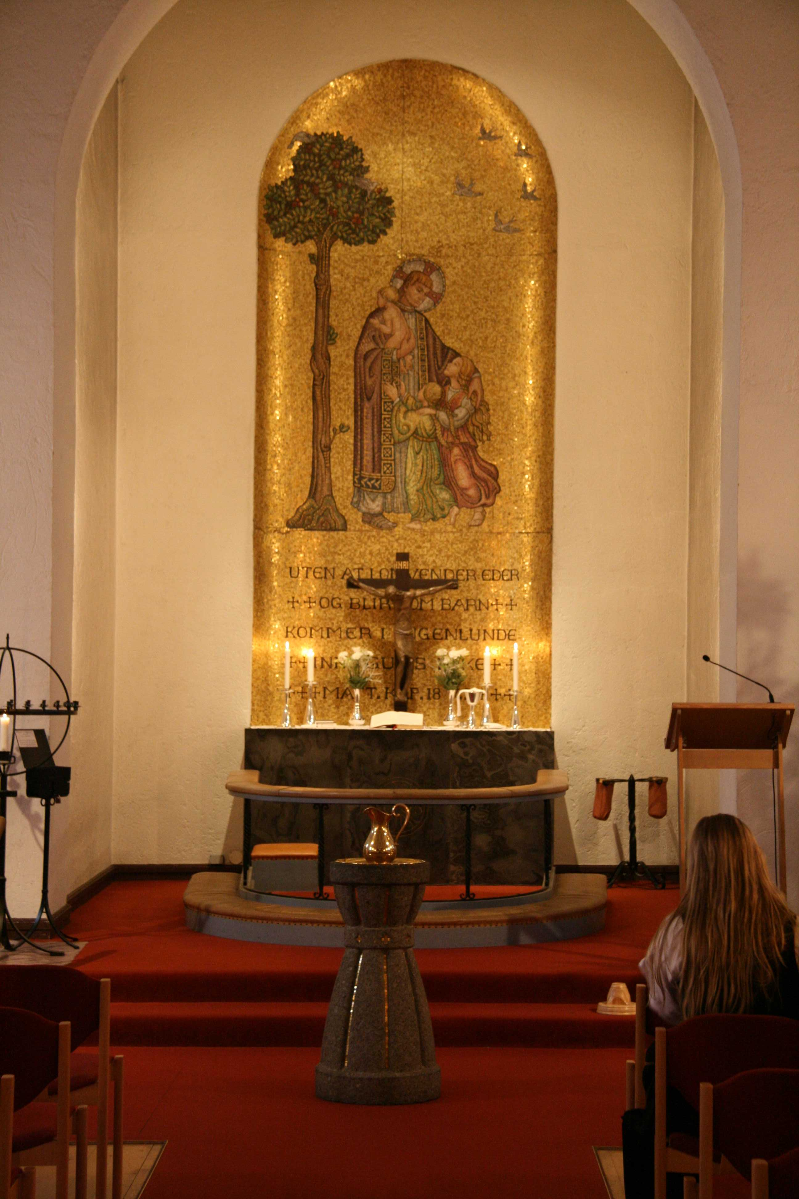 Altar and altar piece in Høybråten church in Oslo, Norway